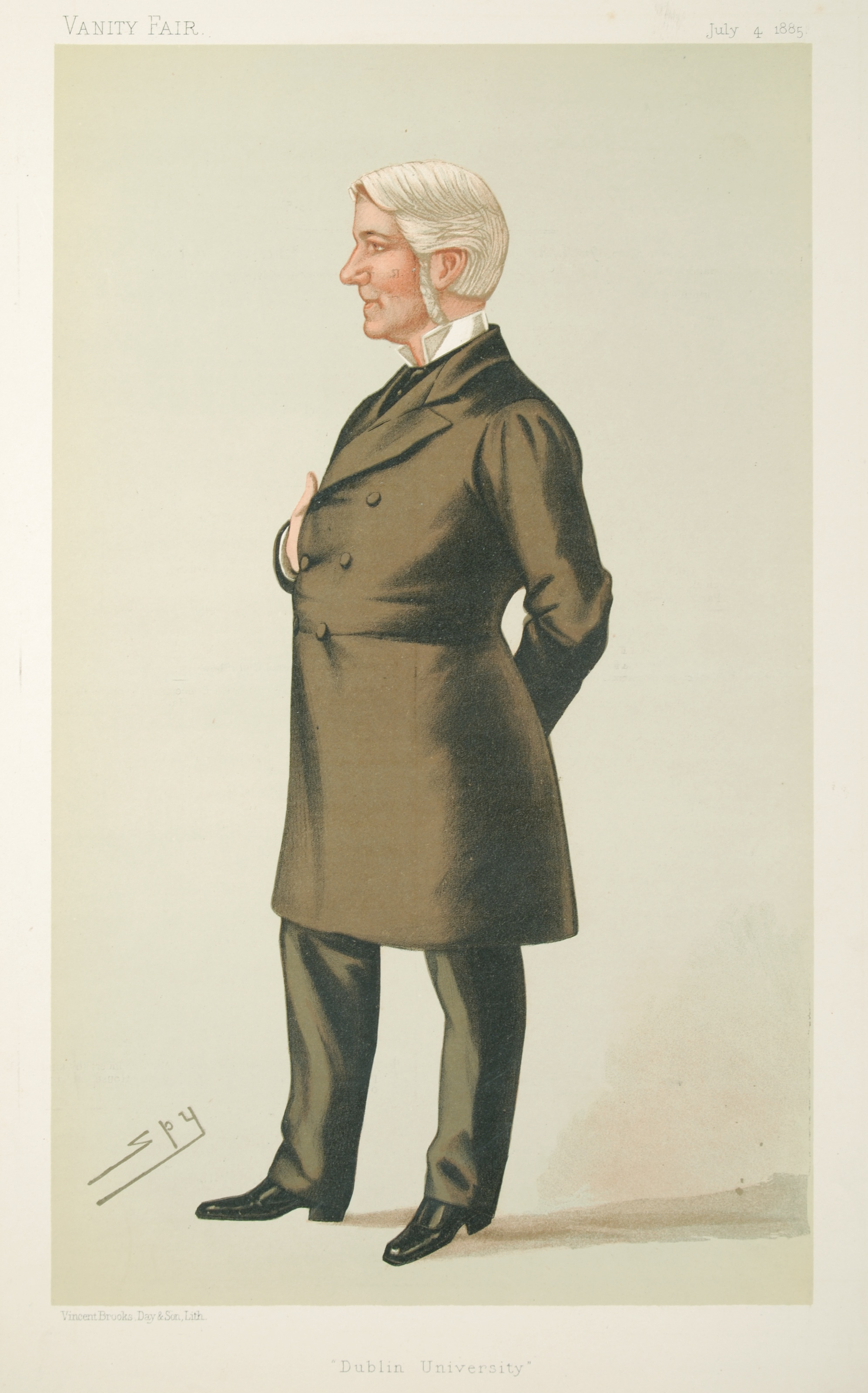 Statesmen No.466: Caricature of The Rt Hon E Gibson PC QC LLD. Caption reads: "Dublin University."